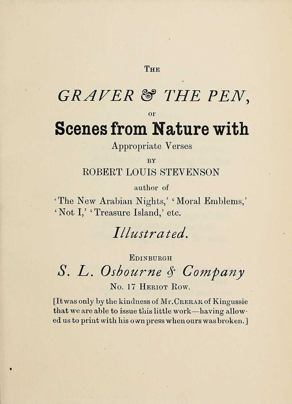 Works of Robert Louis Stevenson, Edinburgh, Longmans Green and Co, vol. 28, 1898, p. 127.